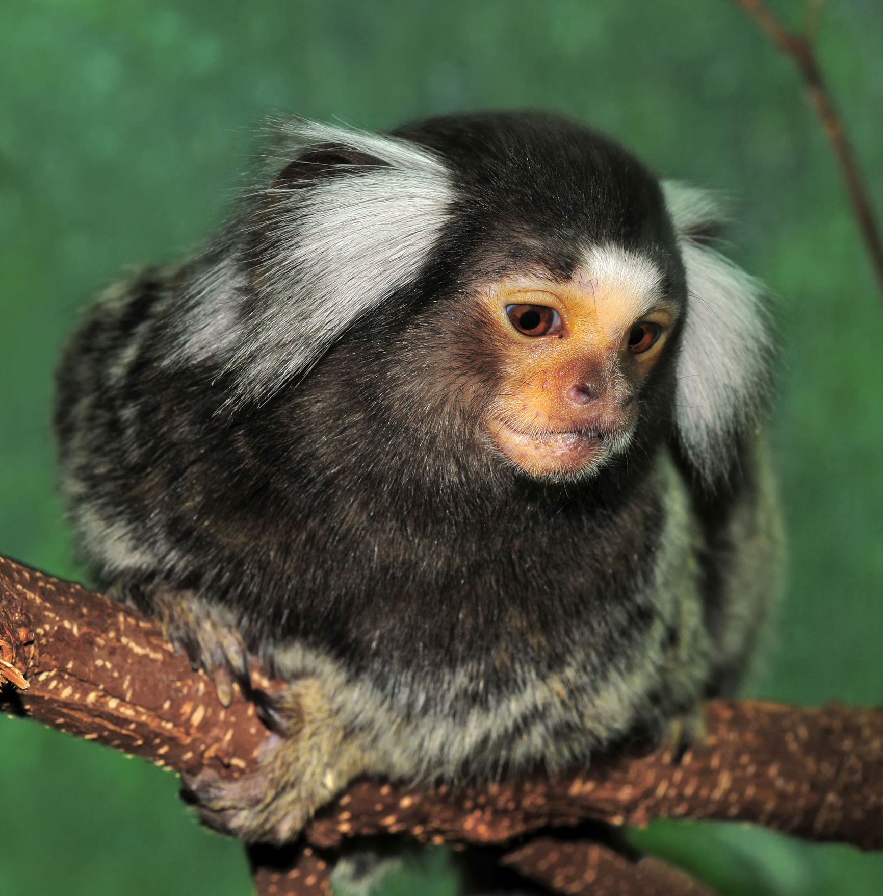 Common Marmoset at the Haus des Meeres in Vienna, Austria.